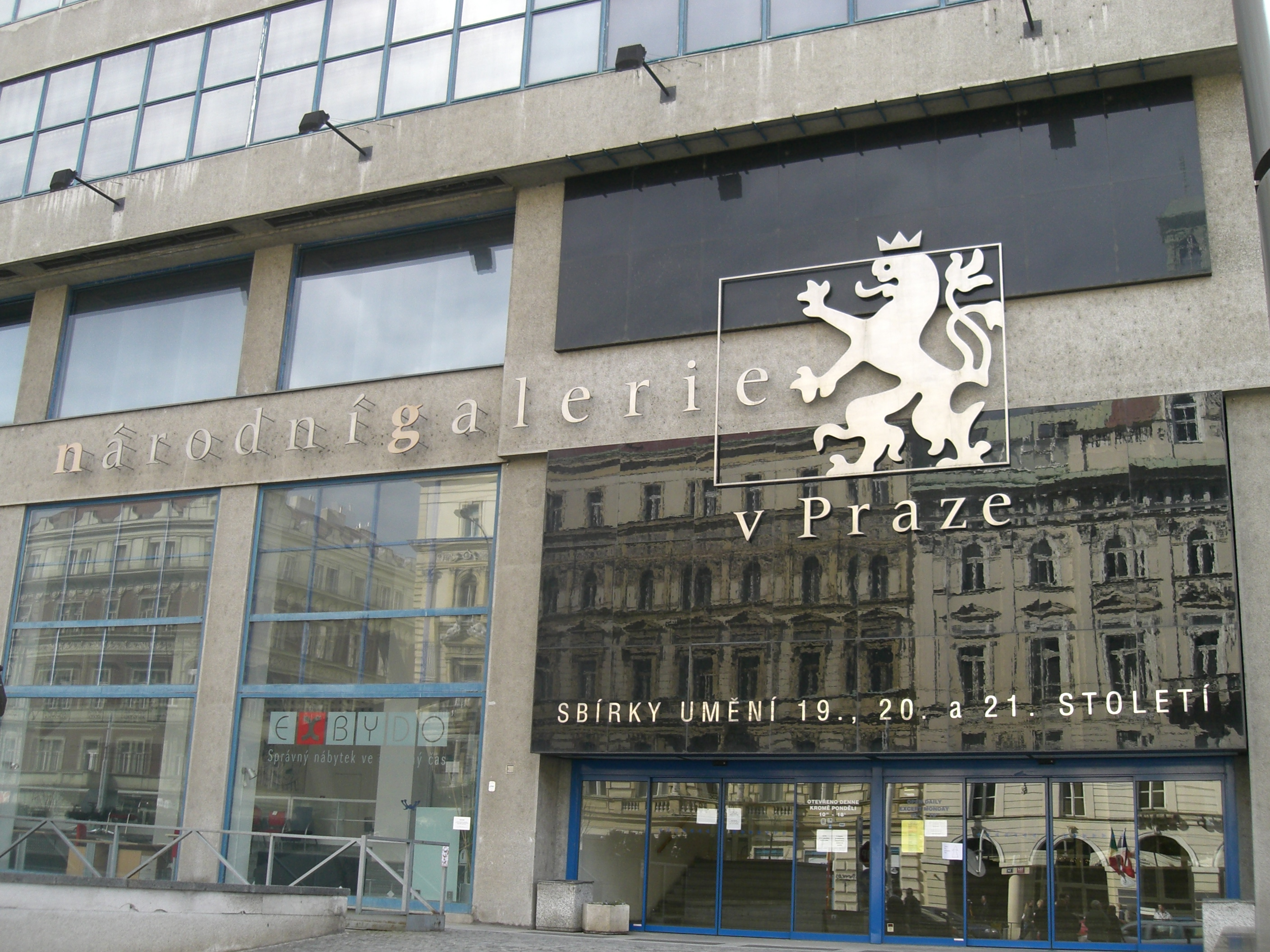 National gallery in Prague, Dukelských hrdinů 530/47, Prague-Holešovice, Czech Republic.